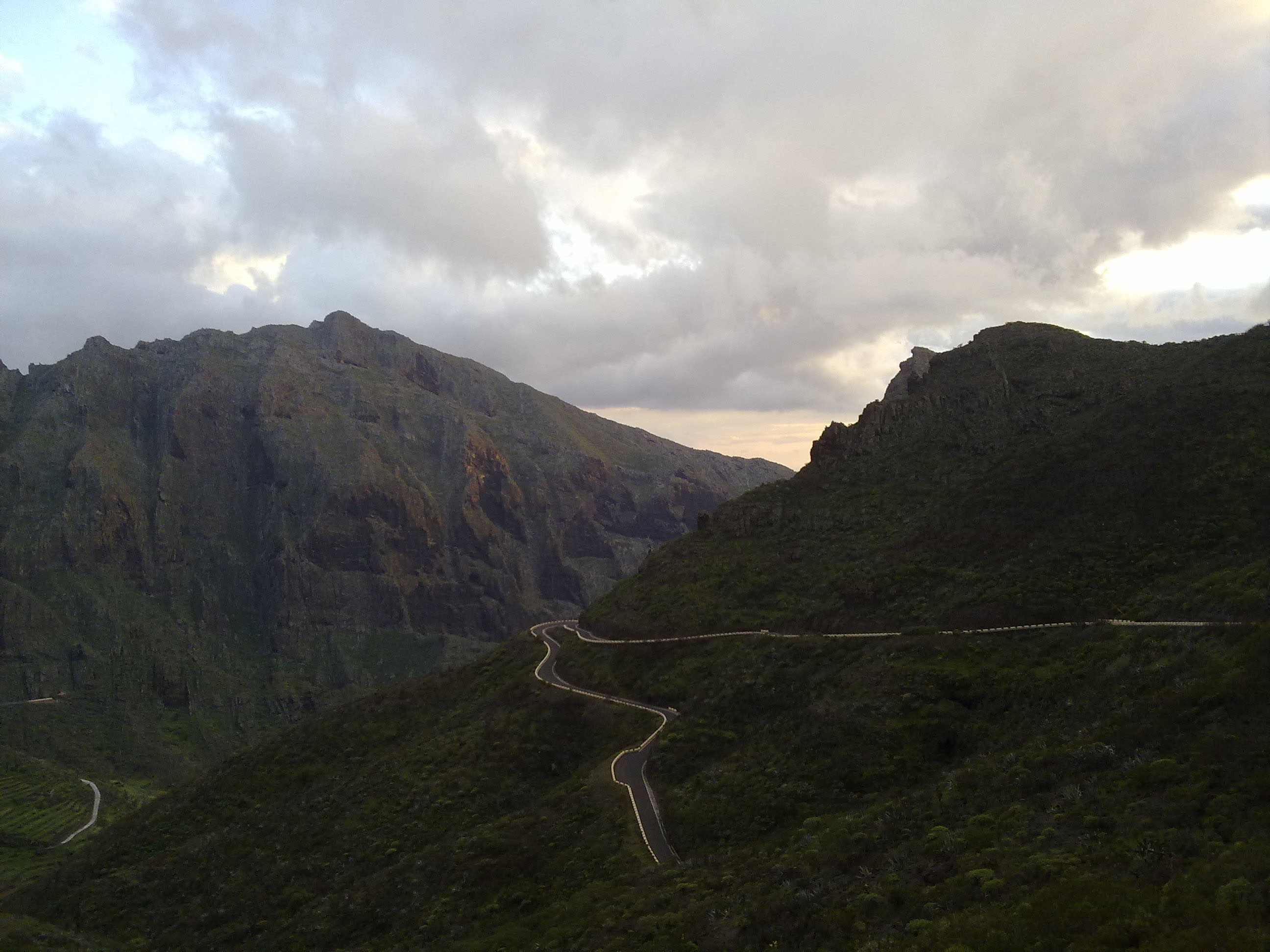 Road to Masca, Tenerife, Spain.